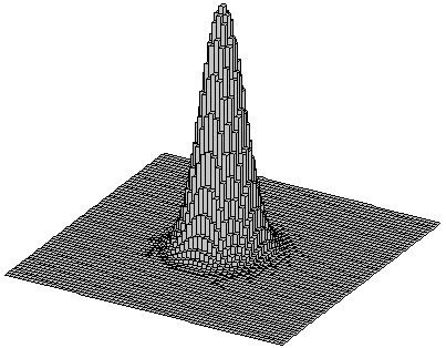 random walk on a grid 60 steps